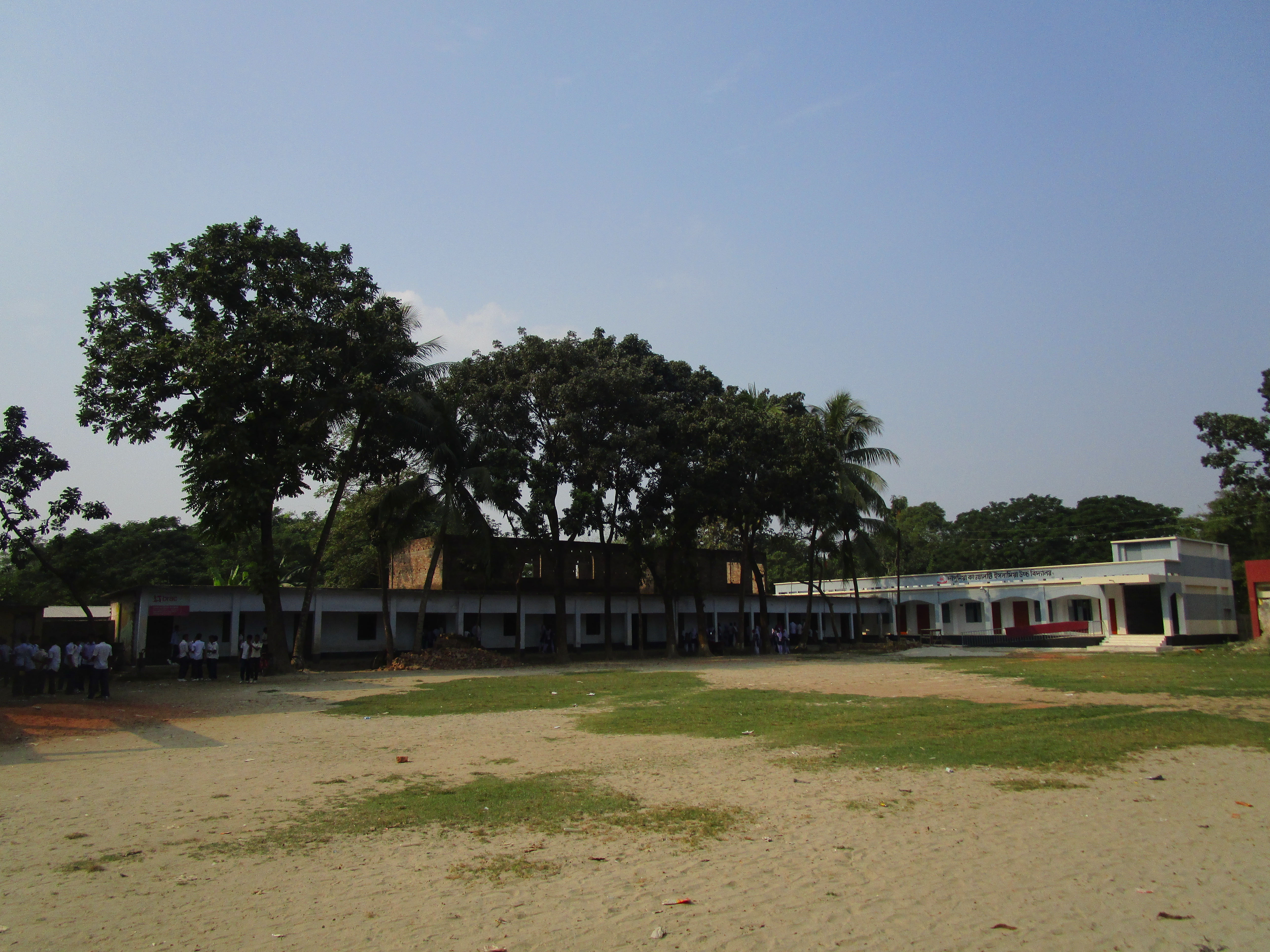 Dapunia Kawalti Islamia High School at Dapunia, Mymensingh.